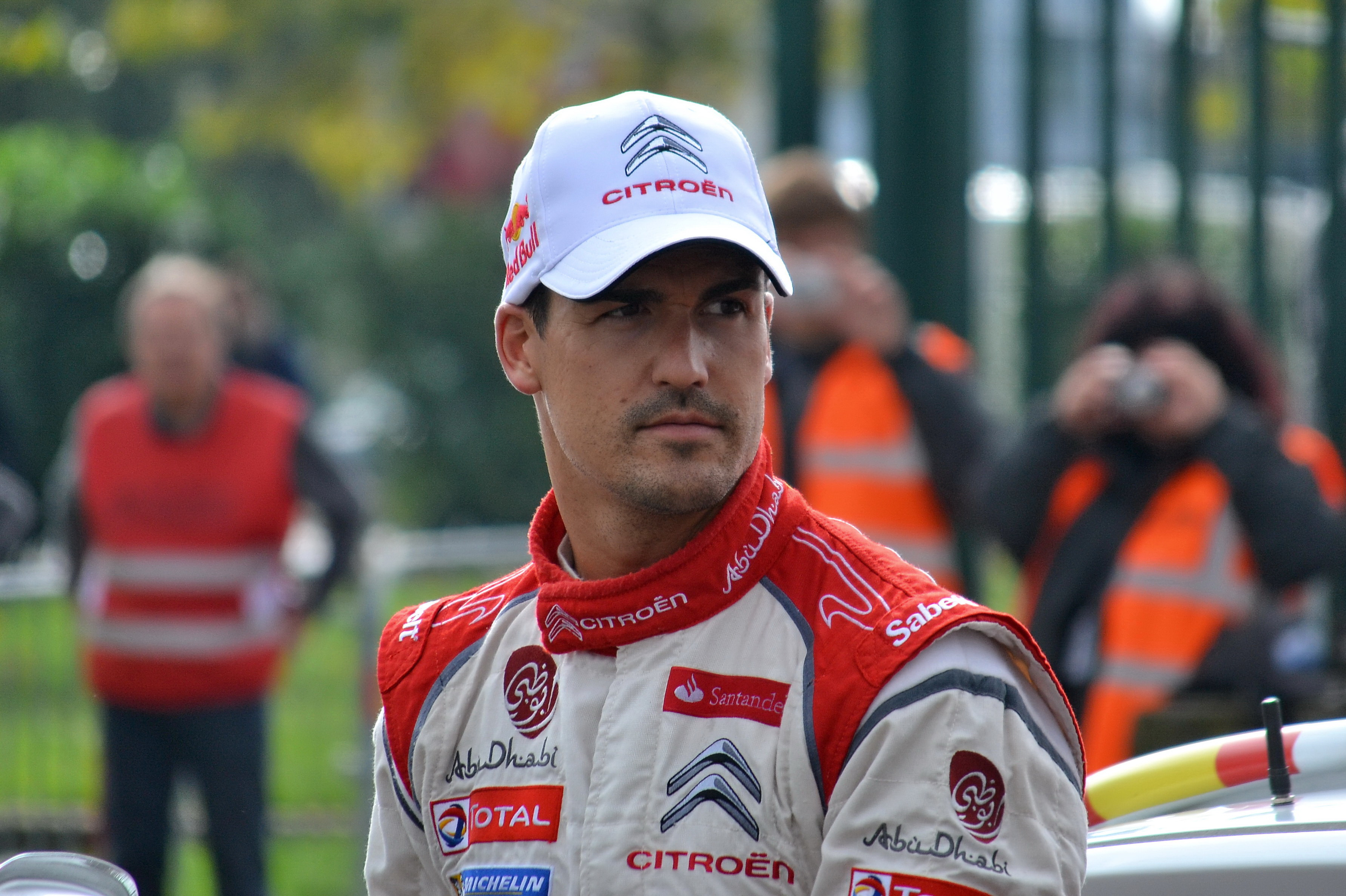 Daniel "Dani" Sordo in parc d'assistance of Colmar during the Rally France-Alsace 2013.